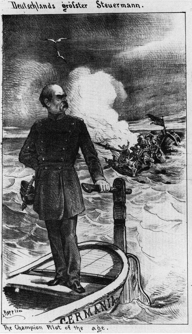 A cartoon of the American magazin Puck by Joseph Keppler depicting Otto von Bismarck as the pilot of the boat Germania and the sinking French State-ship. Caption below: The Champion Pilot of the age. Caption above: Deutschlands größter Steuermann (Translation: Germany's greatest helmsman)